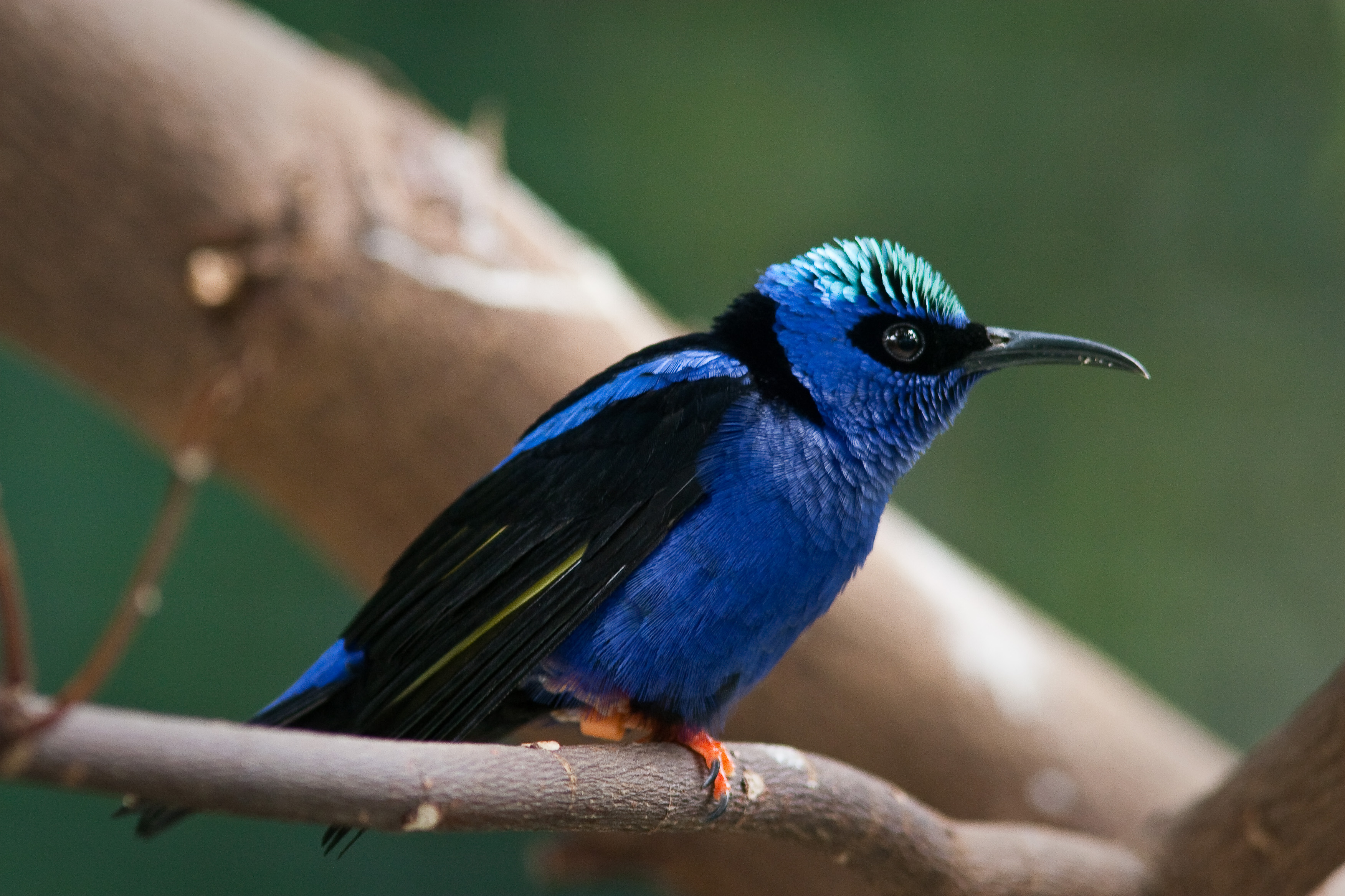 A male Red-legged Honeycreeper at Diergaarde Blijdorp, Rotterdam, Netherlands.